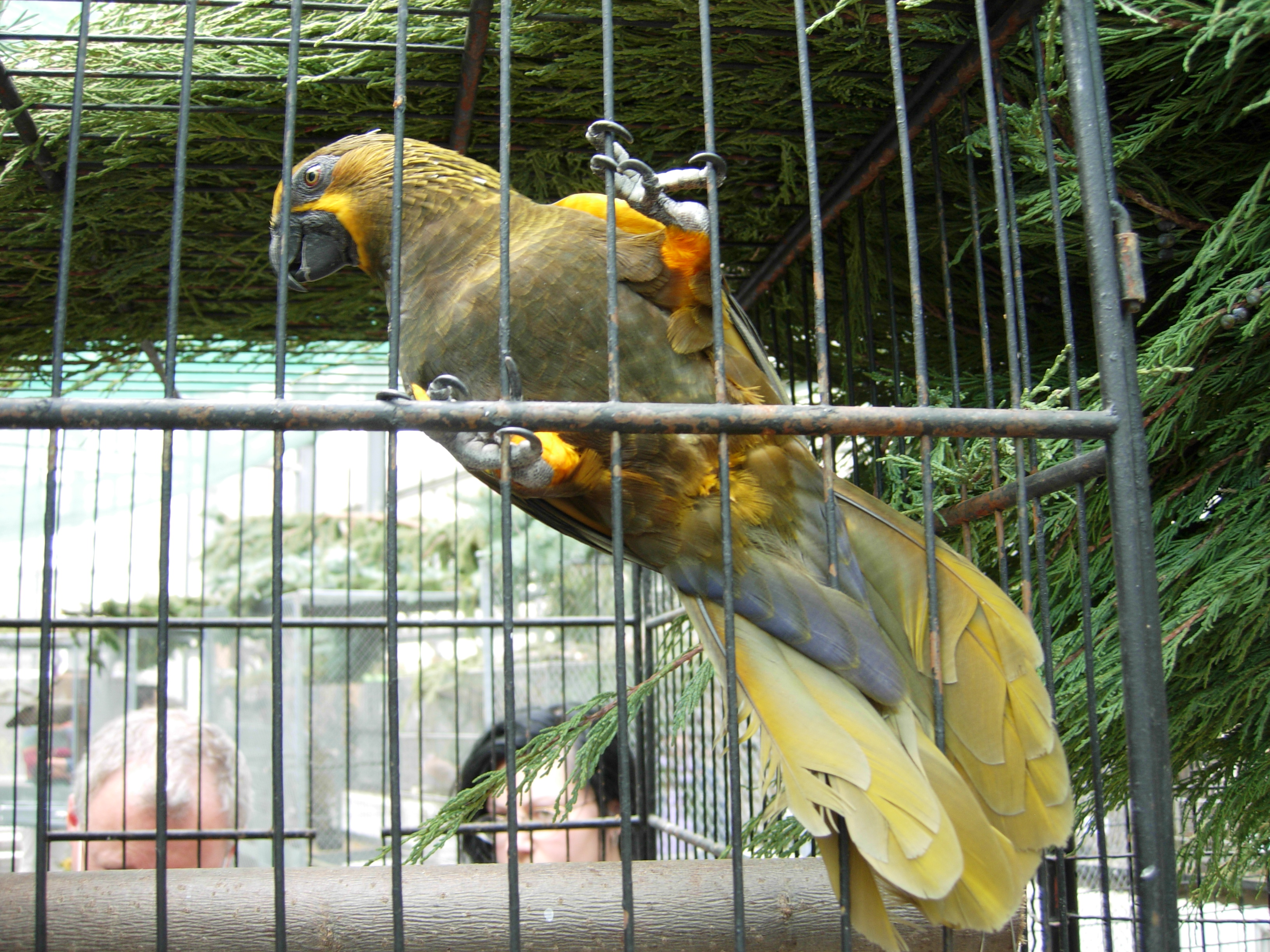 Brown Lory on cage, underside view.